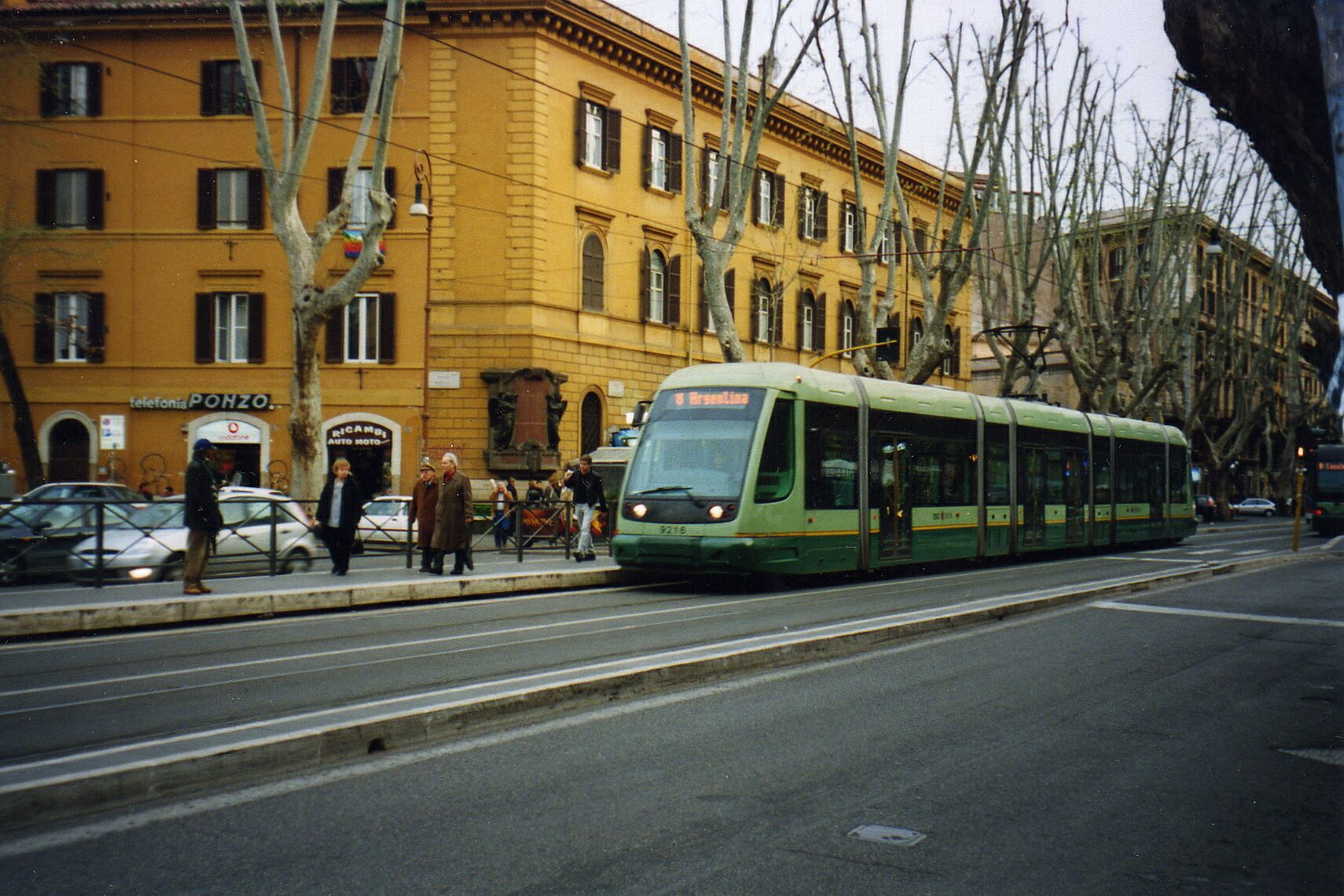 ATAC 9200 series tram in Rome, Viale Trastevere / Piazza Mastai